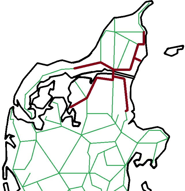 Map of railways in Northern Jutland in Denmark with the private railway network Aalborg Privatbaner in brown.